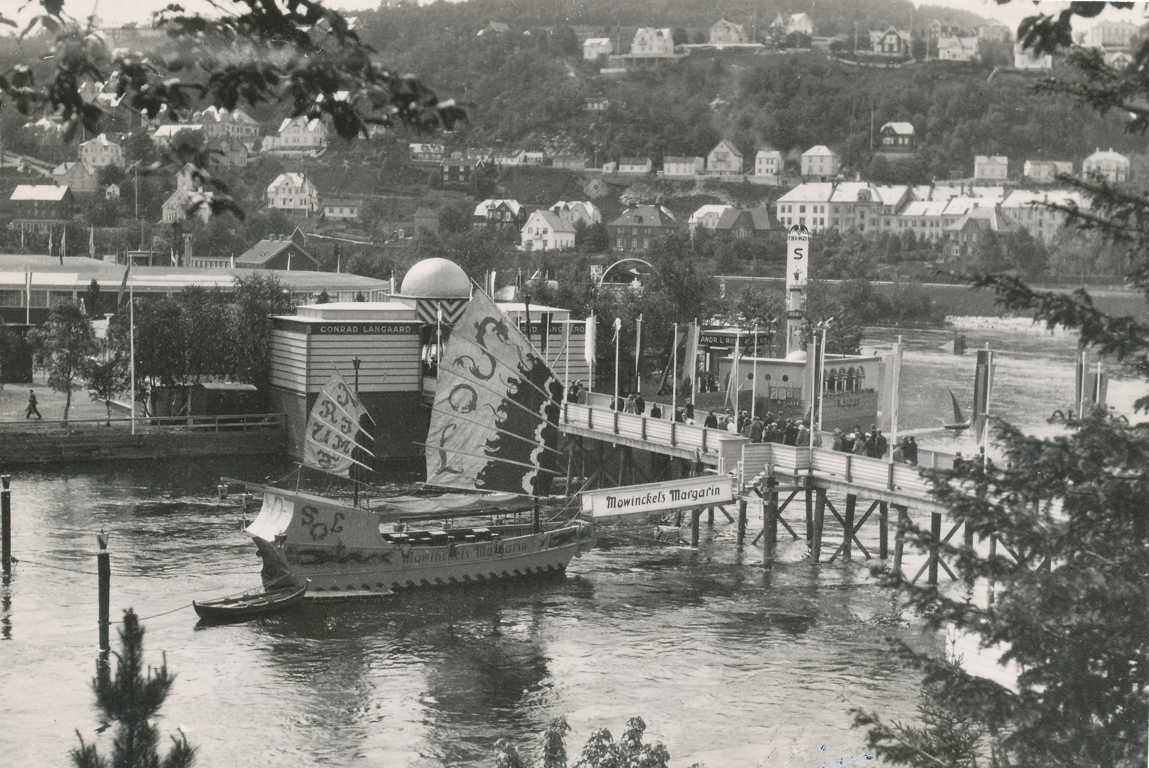 Format: Fotopositiv Dato / Date: 1930 Fotograf / Photographer: Ukjent Sted / Place: Trondheim Eier / Owner Institution: Trondheim byarkiv, The Municipal Archives of Trondheim Arkivreferanse / Archive reference: Tor.H40.B21.F1464 [T0446] Merknad: Trøndelagsutstillingen 1930. Solbåten - eller Margarindjunken - Mowinckels Margarinfabrik reklamerte nemlig for sin Sol Margarin med en kinesisk djunke i Nidelva. I Trondheim var Mowinckels Margarinfabrik representert ved Brødrene Opheim i Nordre gate 30. From the Trøndelag Expo in 1930. This is the Sun Ship; or should we call it the Margarine Ship? Actually this is a commercial "stand" for Sun Margarine made by the Mowinckel Margarine Factory.